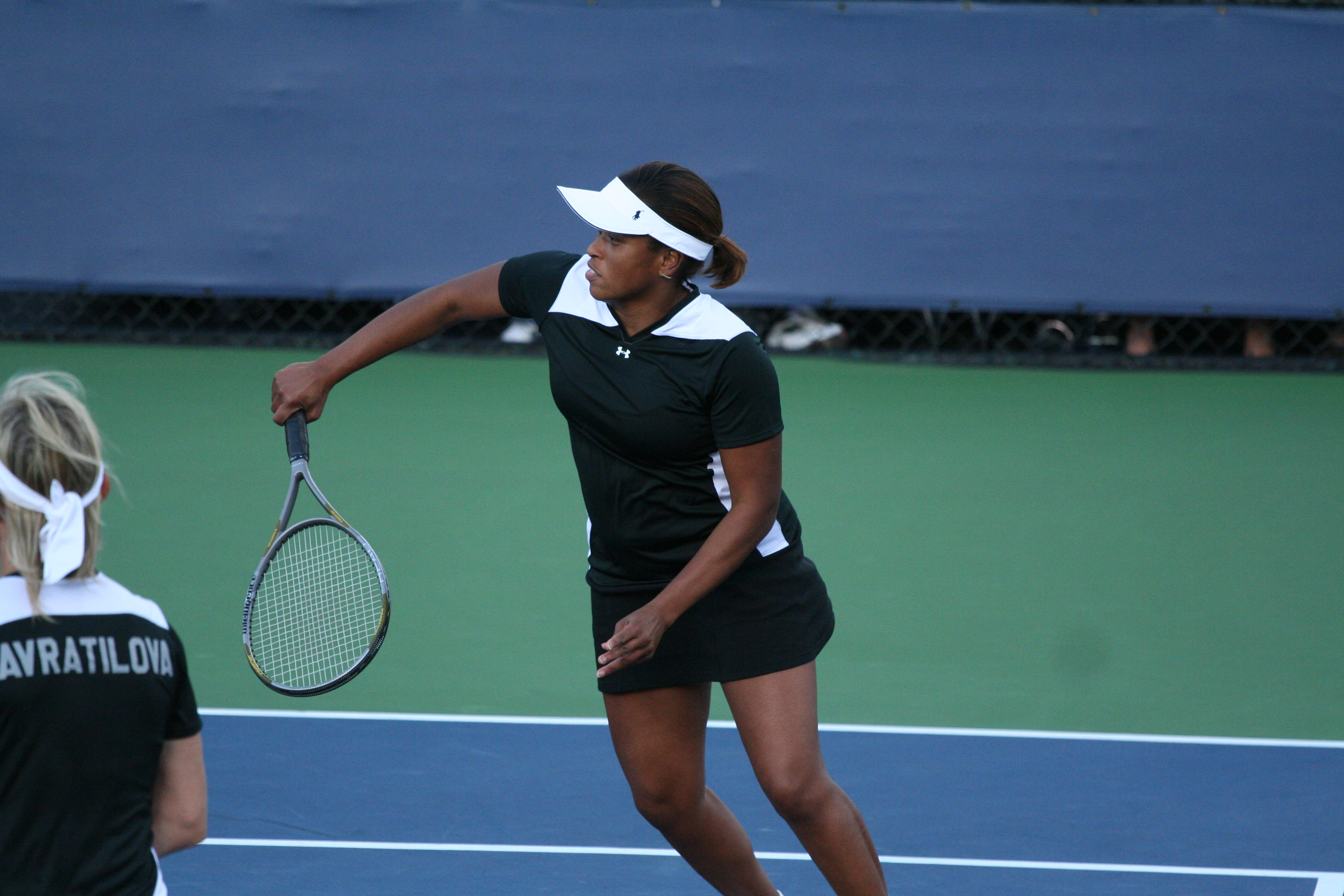 U.S. Open Champions Team Tennis Sept. 9, 2010